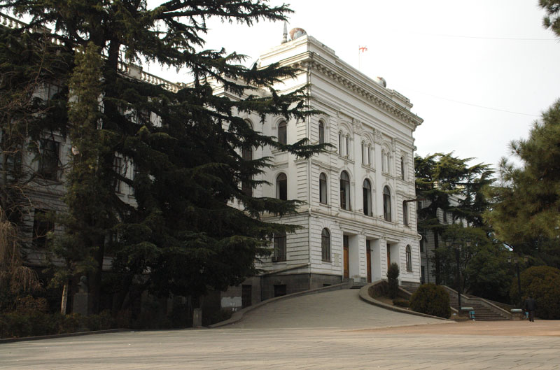 Tbilisi State University